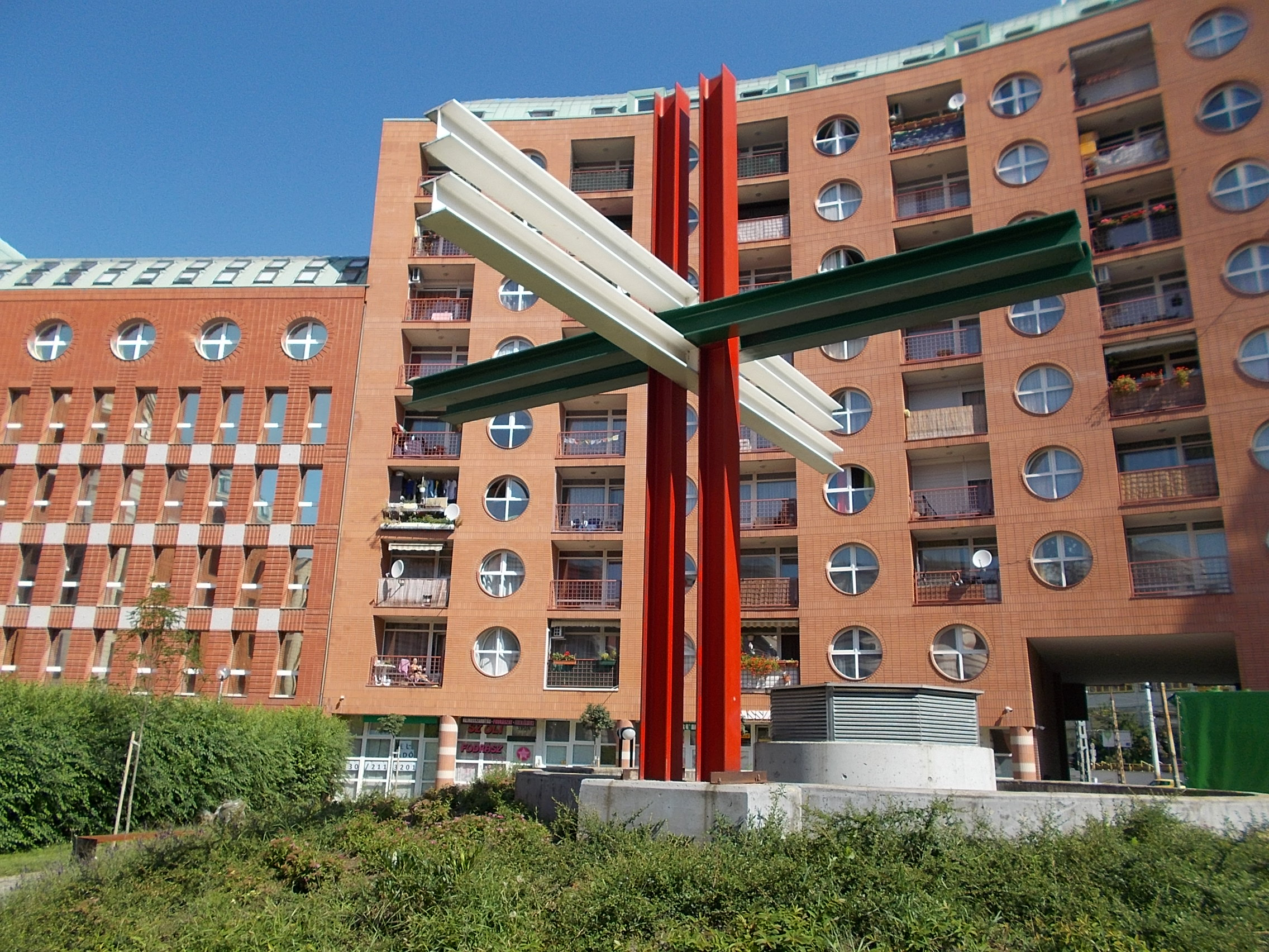 Hungarian Cross sculpture at Cockade Catacomb Memorial Site and Chapel - Orczy Square, Baross Street, Orczy District, Budapest District VIII, Budapest.